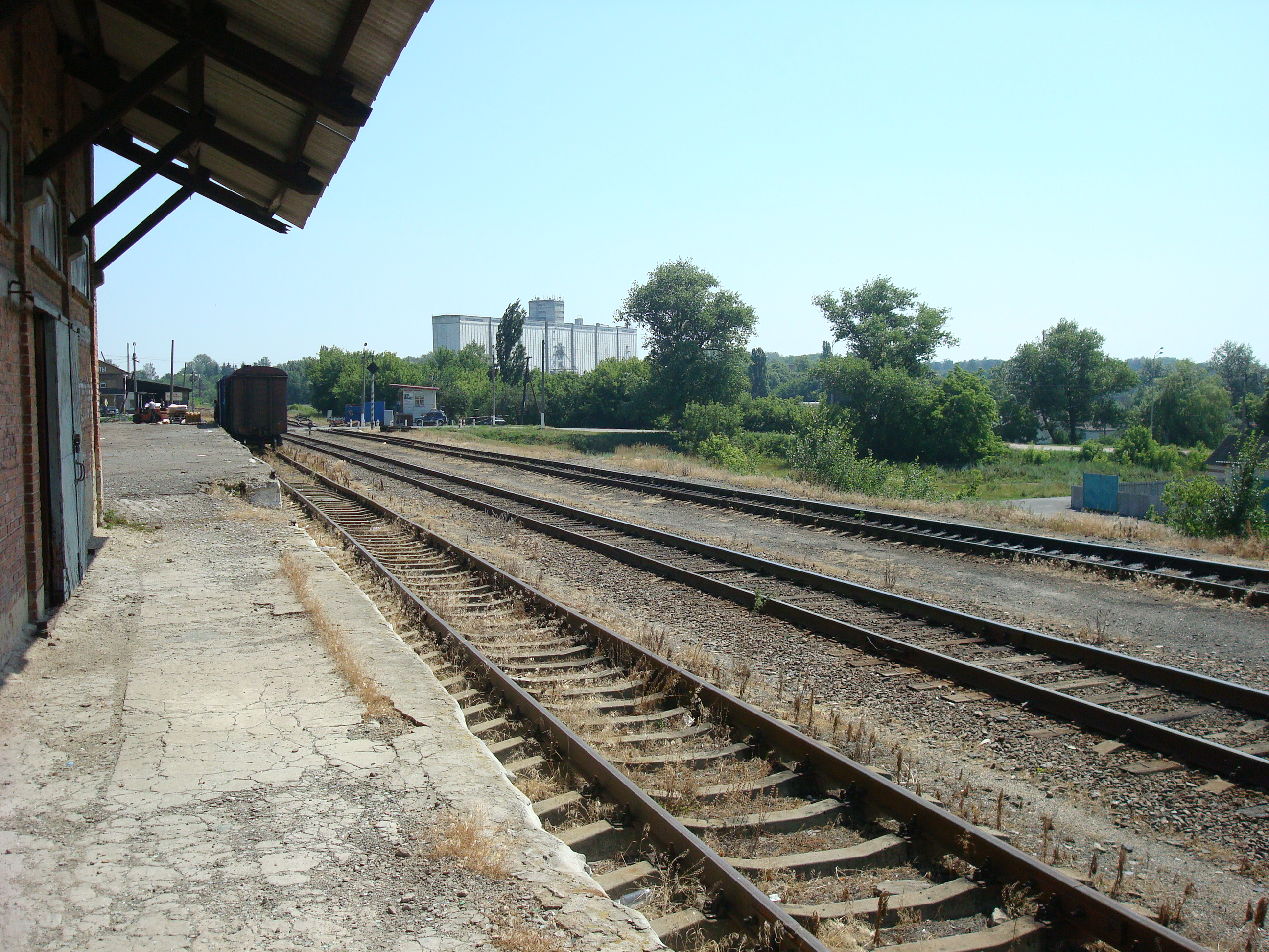 Railways at Oboyan Train Station (Southeastern Railway (Kursk Oblast, Russia)).